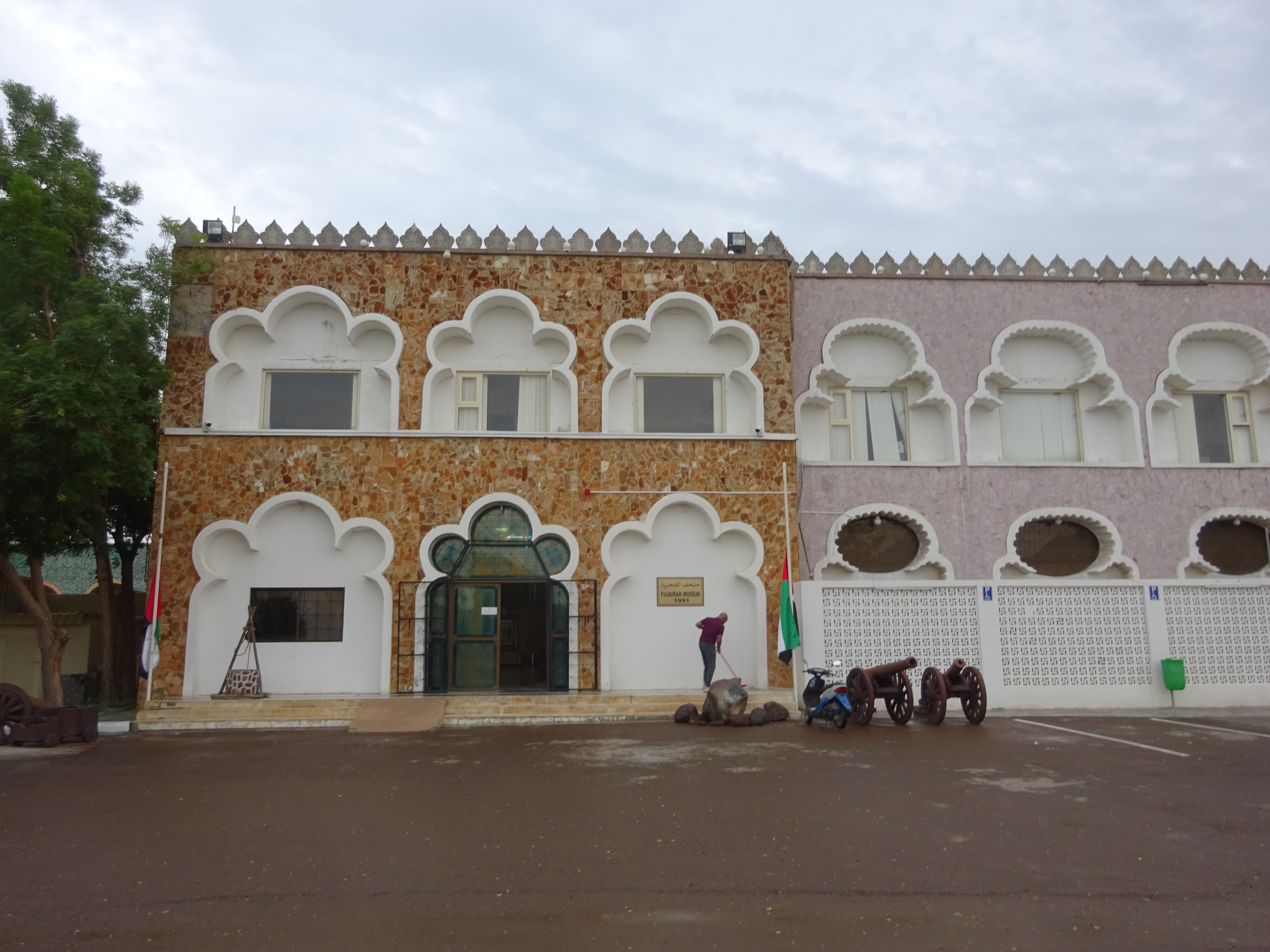 Fujairah Museum external view of the entrance, Fujairah City, UAE.